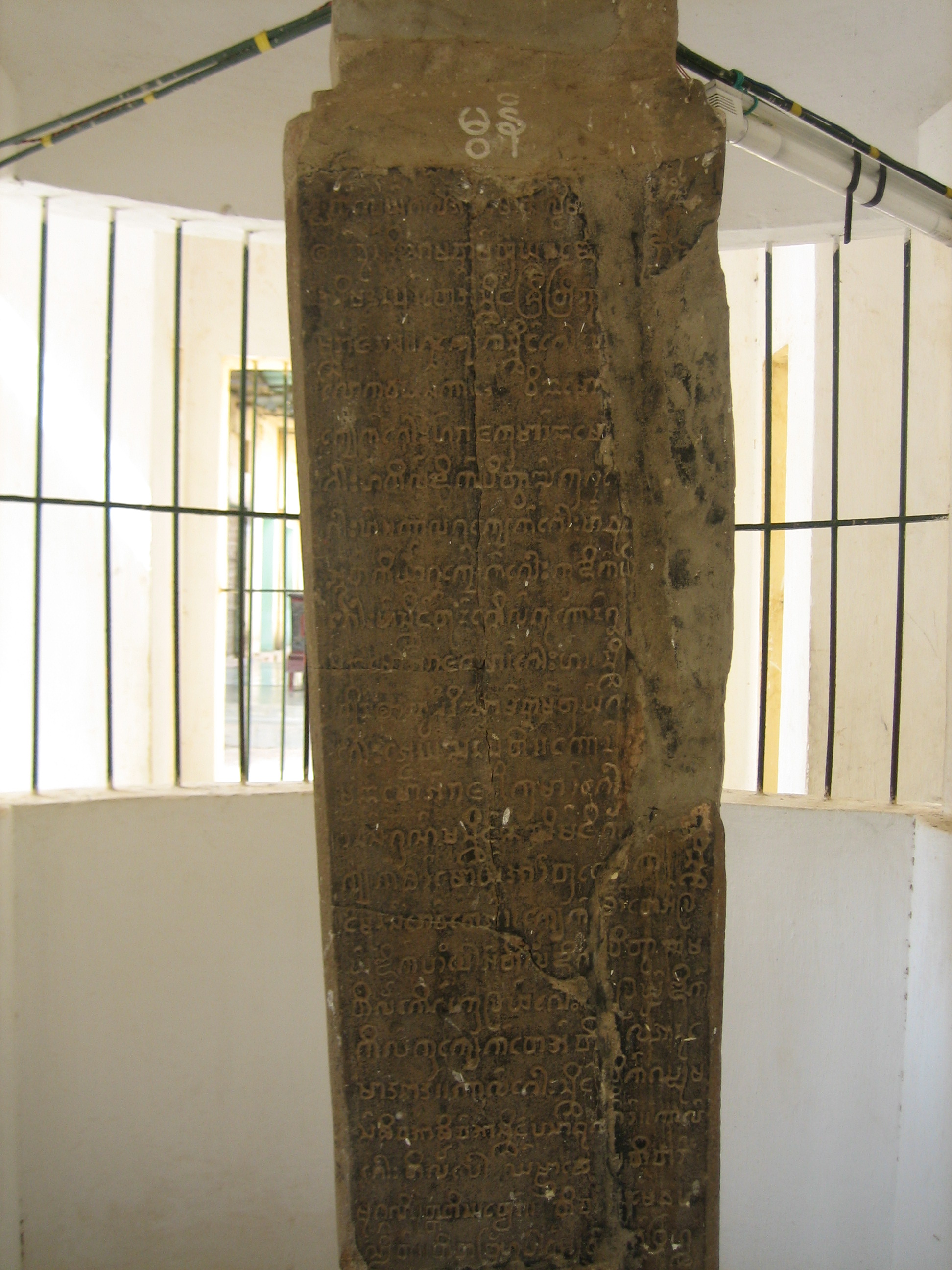 Myazedi Inscription in Mon language -- Gubyaukgyi Temple, Bagan, Myanmar